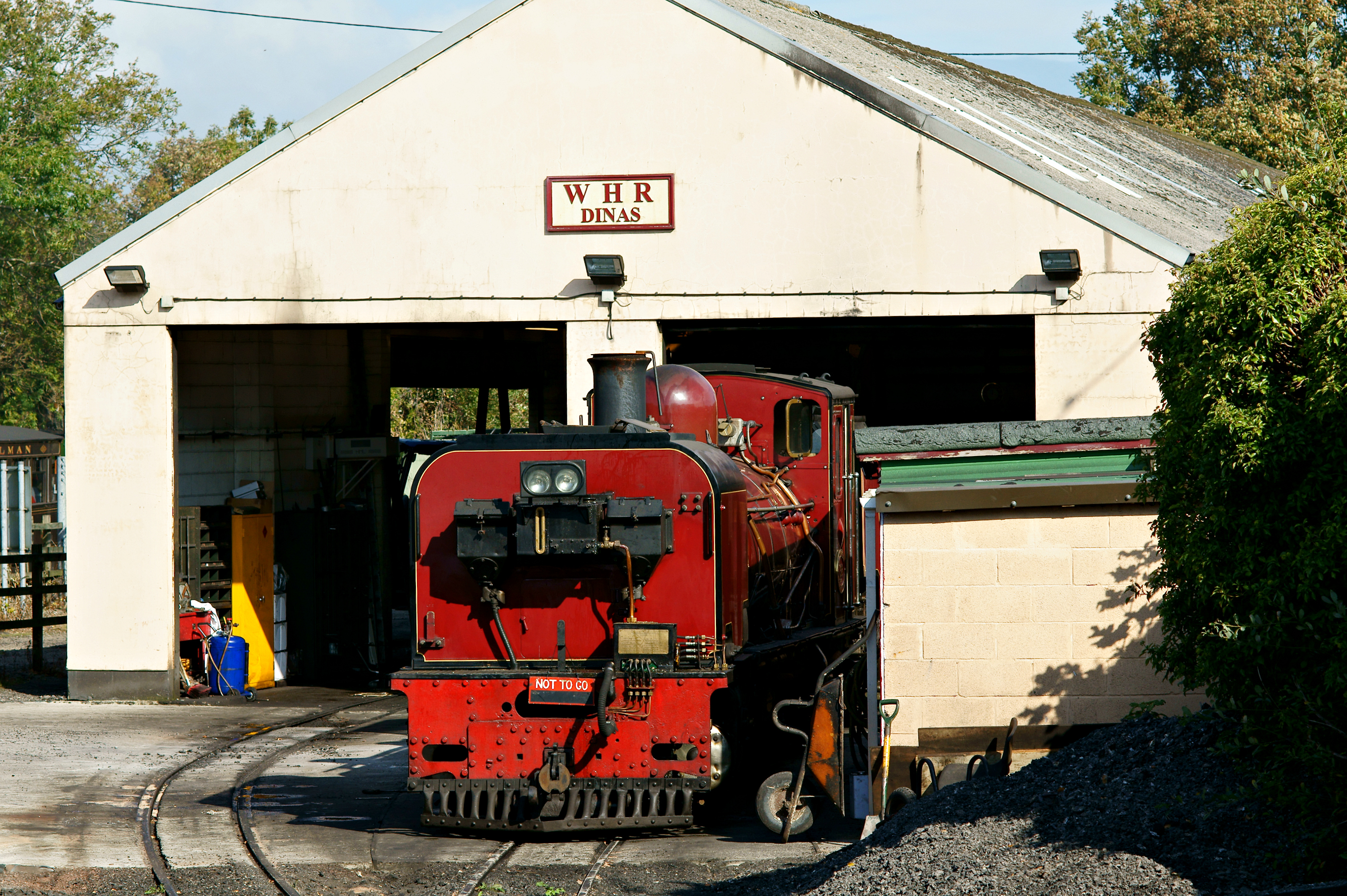 Engine Shed at Dinas, Gwynedd